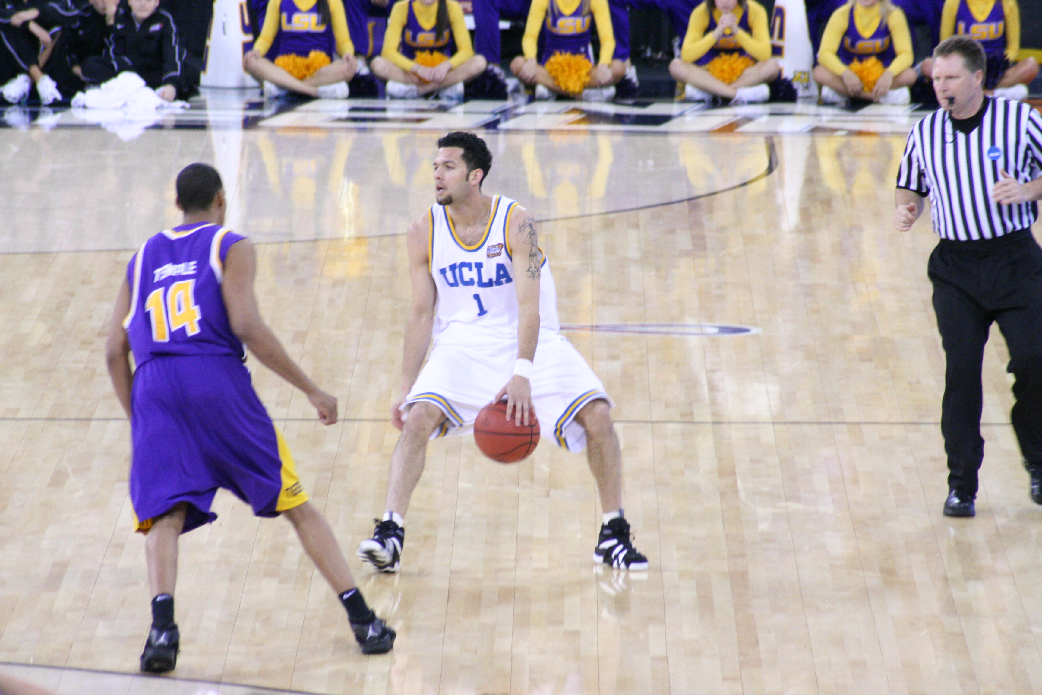 Jordan Farmar dribbling on the court.